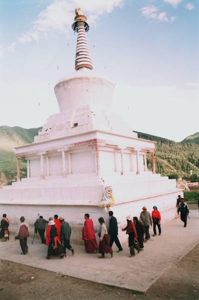 Dagoba and Pilgrims Labrang Monastery stupa — Xiahe, Gansu, China. Photo by Christopher M. Cline